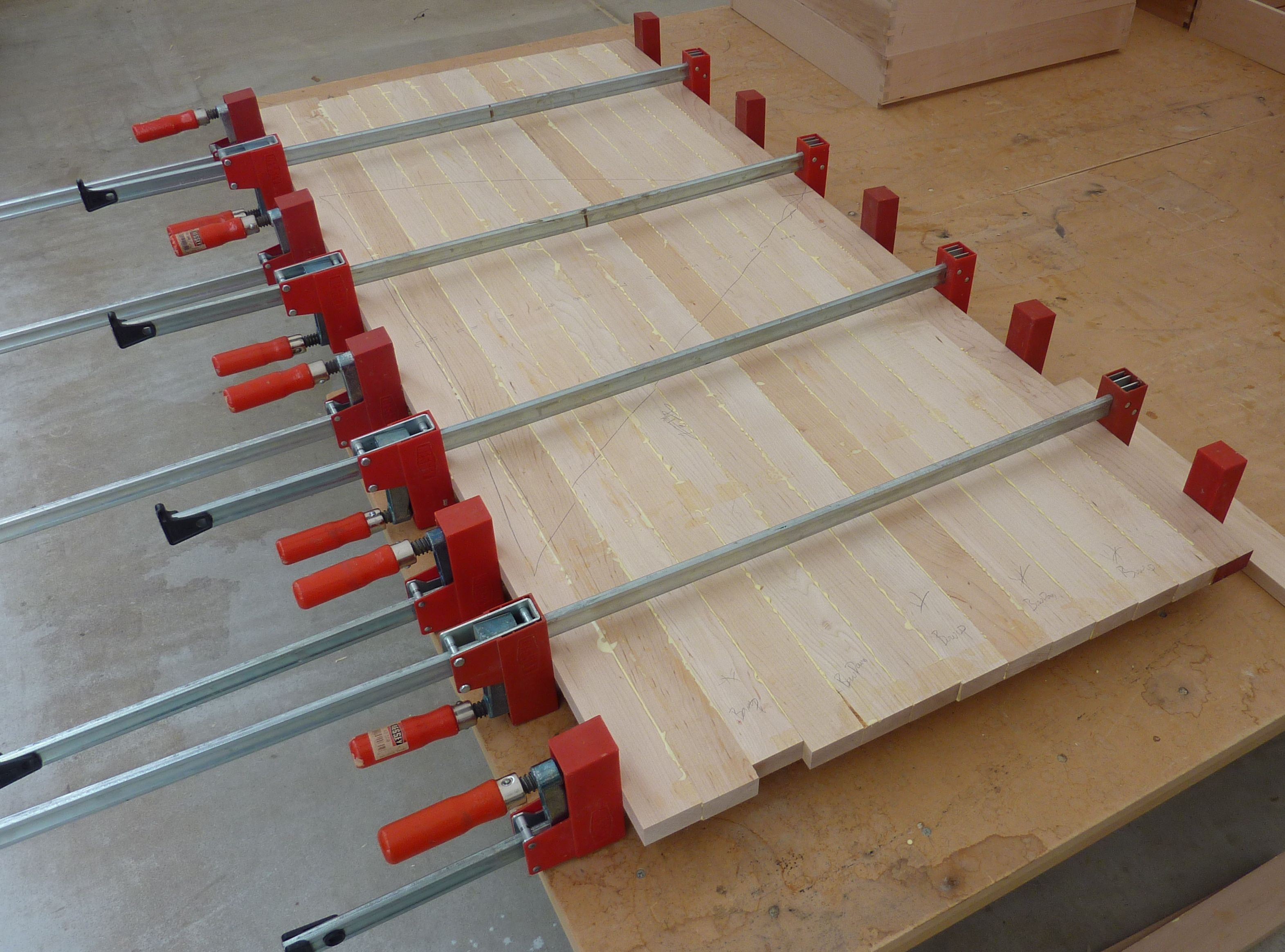 Bar clamps employed in laminating a Maple table top.